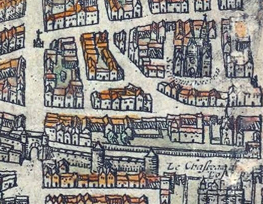 Enceinte de Philippe Auguste (detail porte Saint-Honoré) on the plan of Braun and Hogenberg (c.1530, published in 1572, edition of 1593).